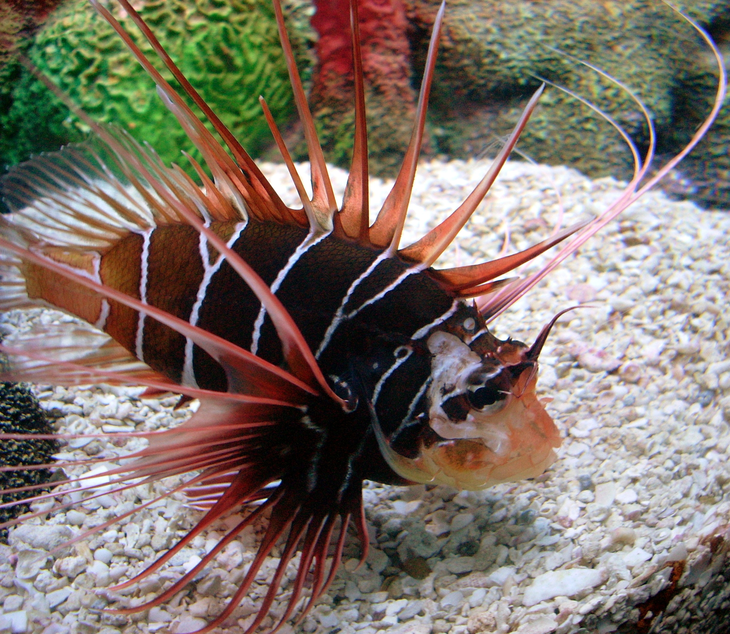 Clearfin/Radiata Lionfish